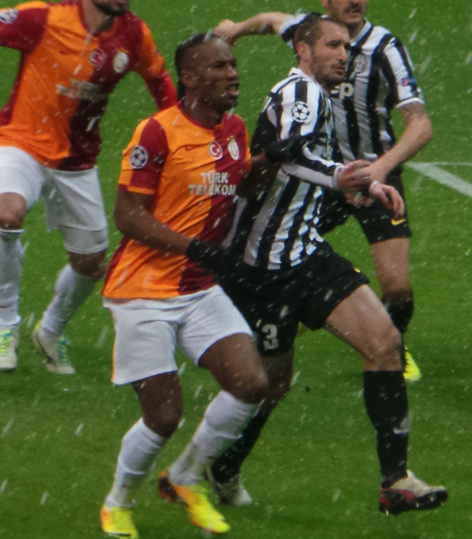 Didier Drogba ve Giorgio Chellini